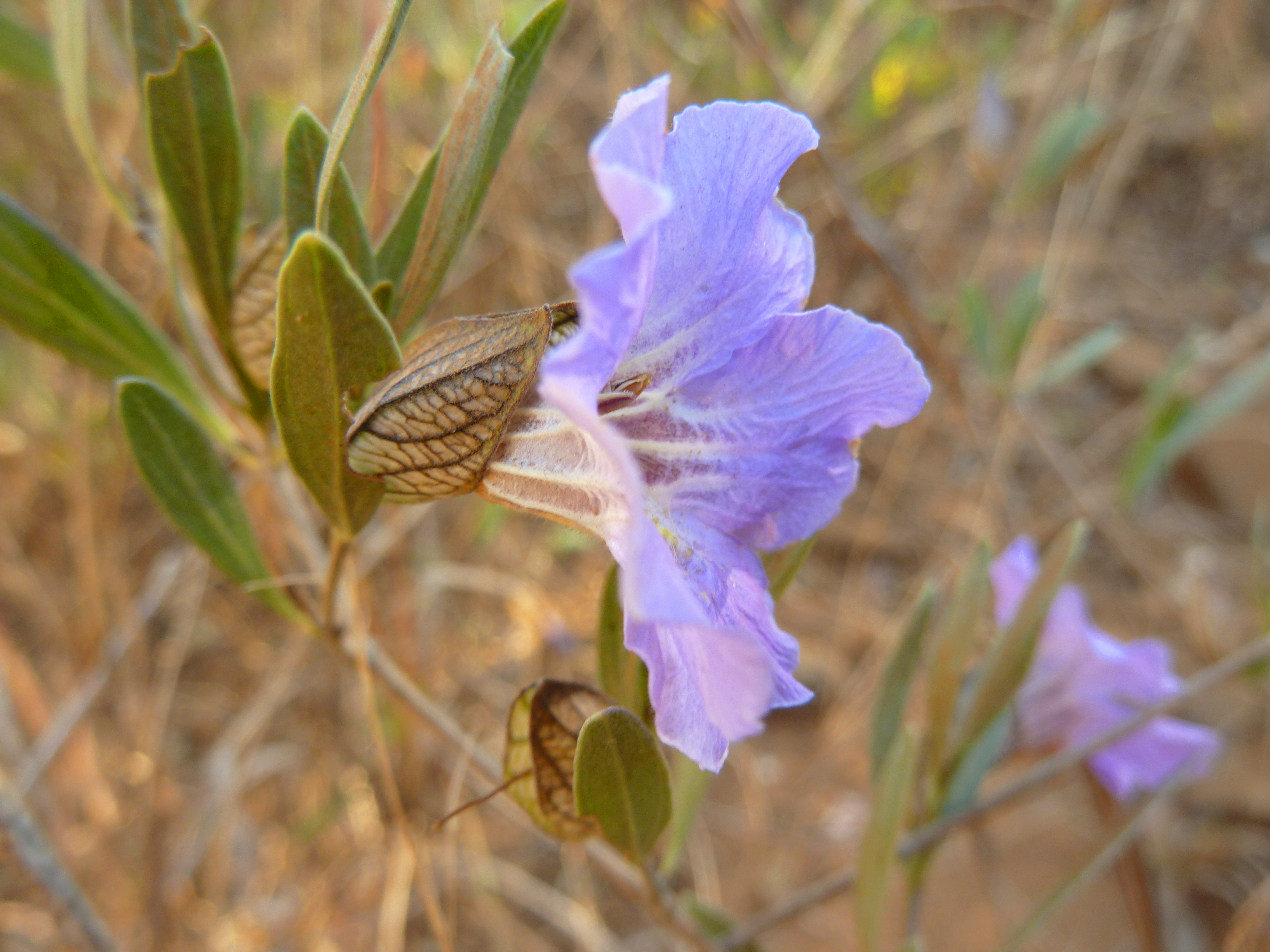 Flower of a Bloubos at Voortrekkerbad, Mpumalanga, South Africa